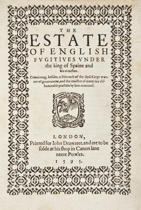 title page of Lewes Lewkenor's book The Estate of English Fugitives, printed by John Drawater